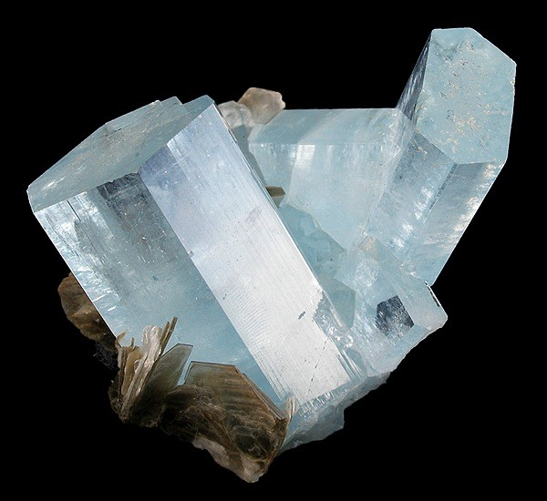 Beryl (Var.: Aquamarine), Muscovite Locality: Nagar (Nagir), Hunza Valley, Gilgit District, Northern Areas, Pakistan (Locality at ) Size: 7.4 x 6.3 x 5.8 cm. Nagar aquamarines have such nice sharp form and a beautiful tendency to form large clusters. This particular Nagar aquamarine, though, has a gemminess and clarity you would not expect to see from here, and is 3-dimensional and aesthetic. It features textbook-sharp, clean, transparent crystals to 5 cm and remarkably they are present in 2 slightly different habits (one an equant hexagonal termination and the other with all axes of different length, most unusual to see in combination). Ex. David Michaels and Irv Brown Collections.